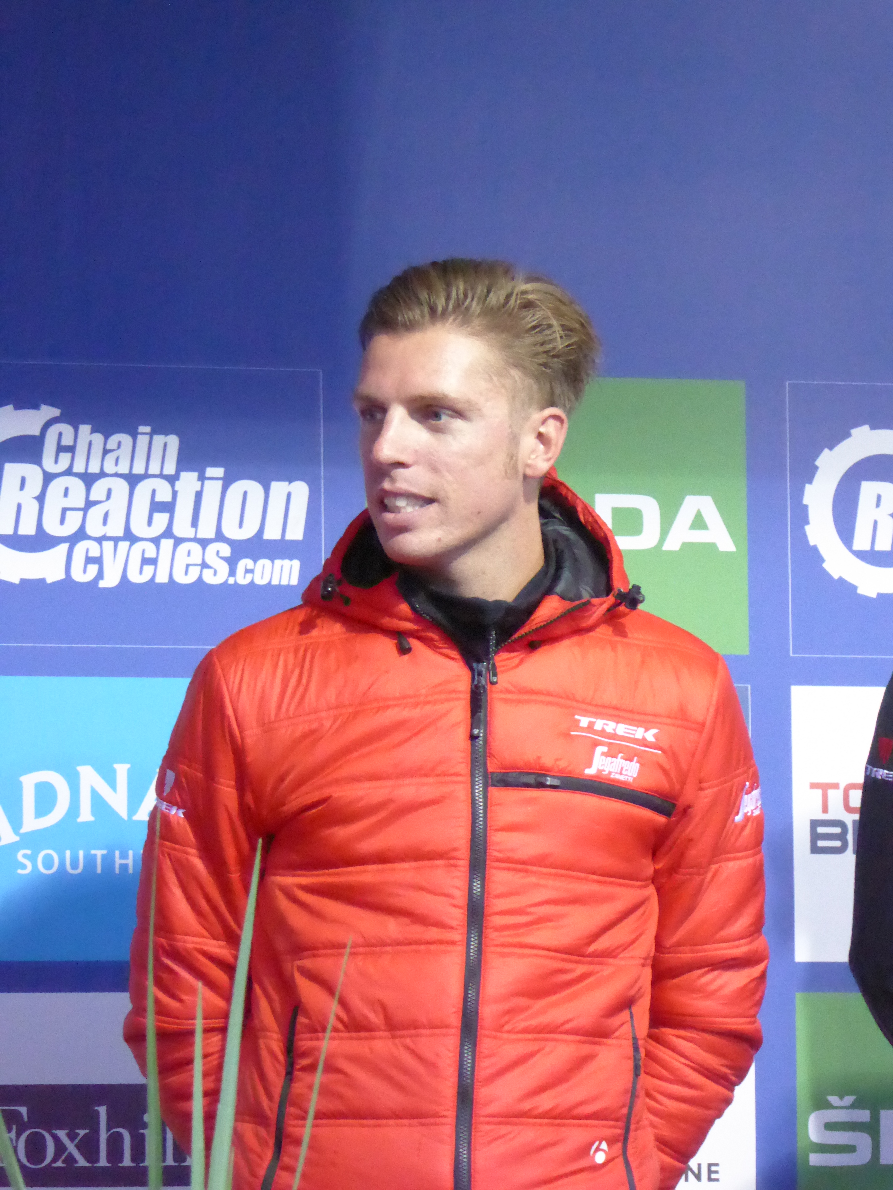 Boy van Poppel (Trek-Segafredo), pictured at the 2016 Tour of Britain team presentation in Glasgow on 3 September 2016.